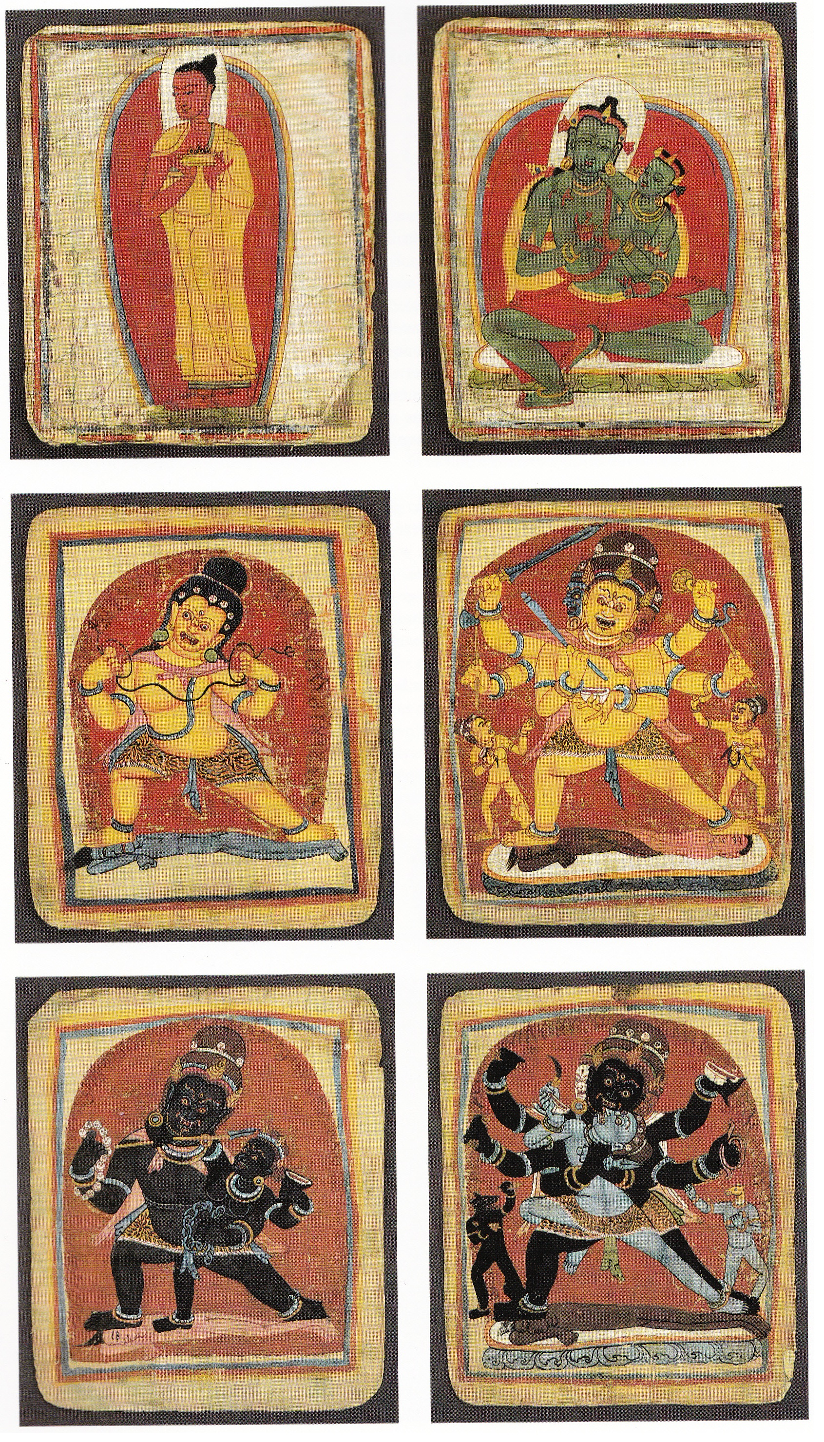 Six small paintings, Rituals for initiation